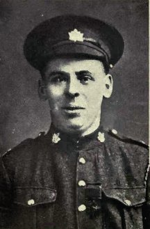 William Johnstone Milne Title: The Canadian annual review war series, Volume 4 Creator: Hopkins, J. Castell (John Castell), 1864-1923 Publisher: Toronto : Canadian Annual review Date: 1918 Possible Copyright Status: NOT_IN_COPYRIGHT